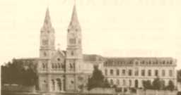 La Iglesia Santísima Trinidad (Church of the Holy Trinity), Rafael Calzada, Buenos Aires Province, Argentina. Designed by Juan Fogeler in 1922, the church was consecrated in 1933.